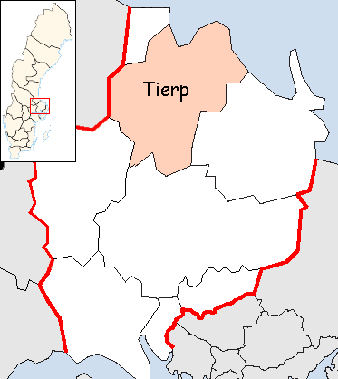 Tierp Municipality in Uppsala County Designd by me, based on Image:Uppsala County.png